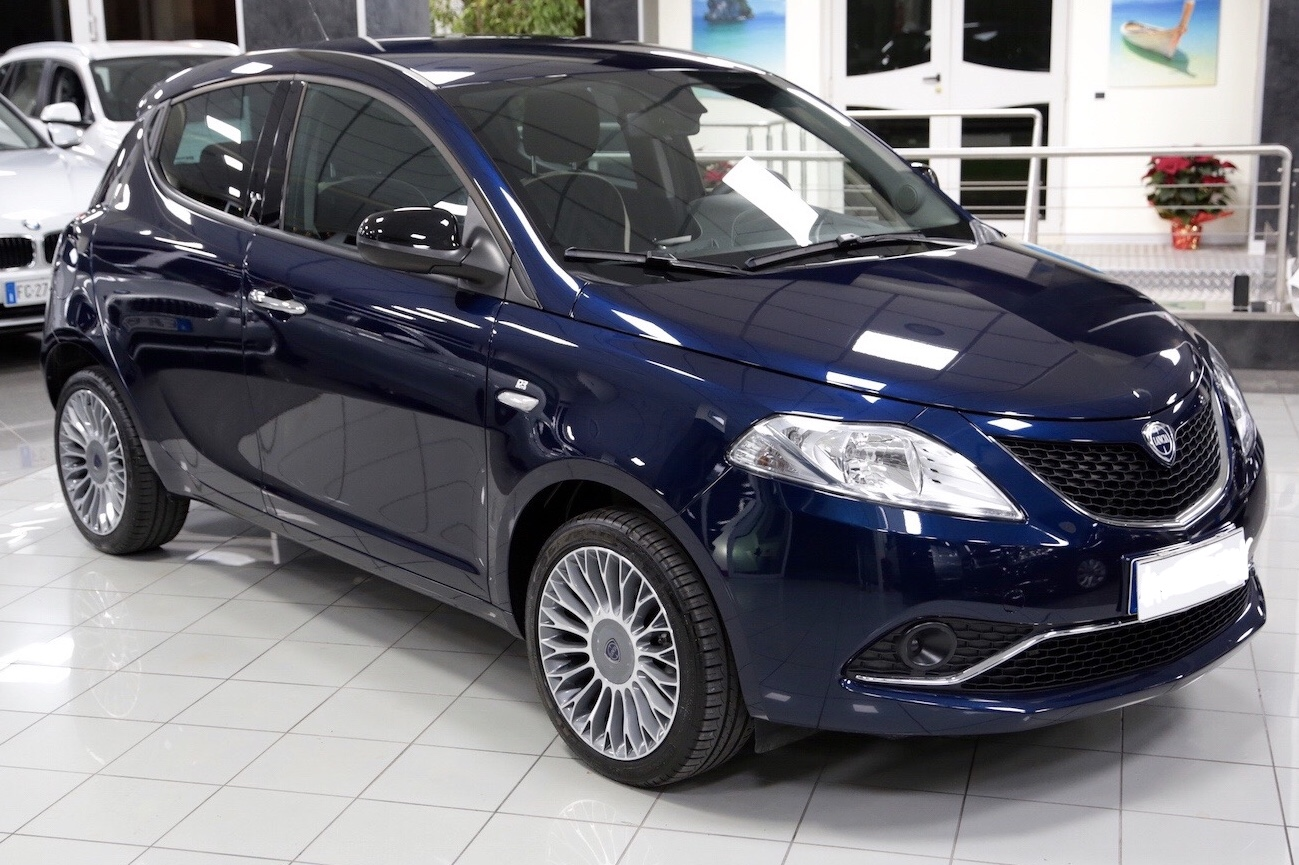 2017 Lancia Ypsilon facelift 1.3 Multijet